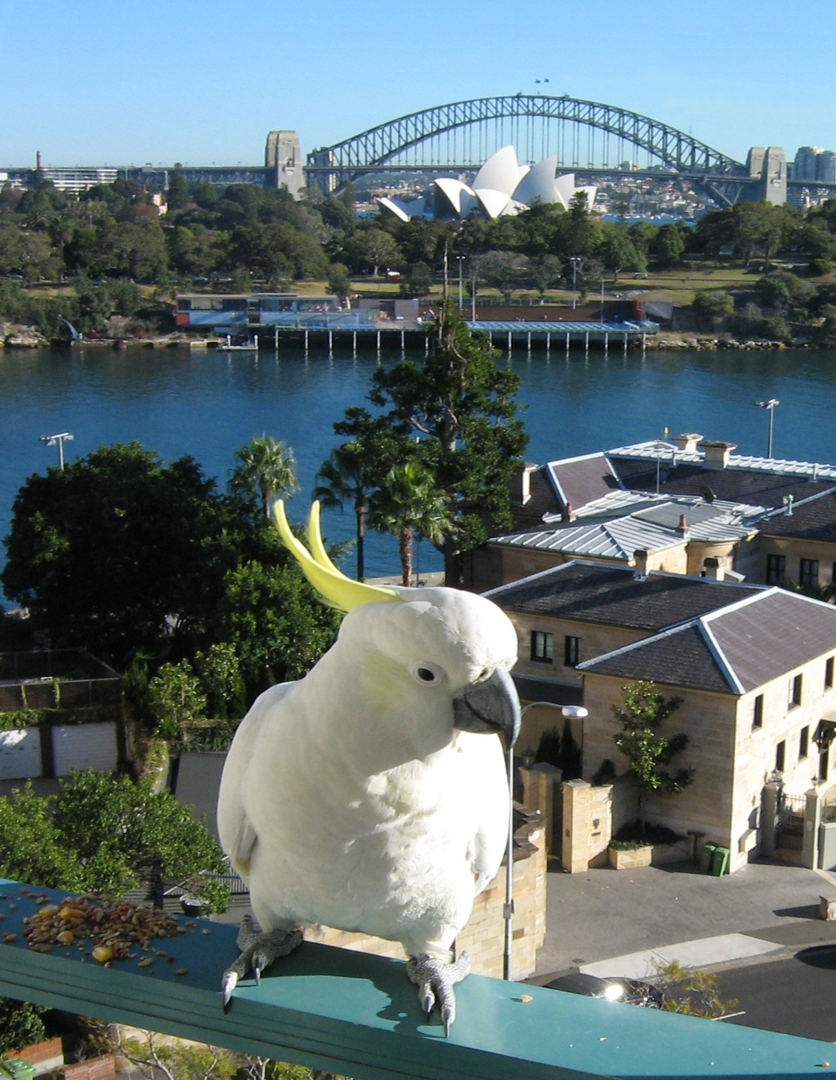 Sulphur-crested Cockatoo (Cacatua galerita) on a balcony in Sydney, Australia.